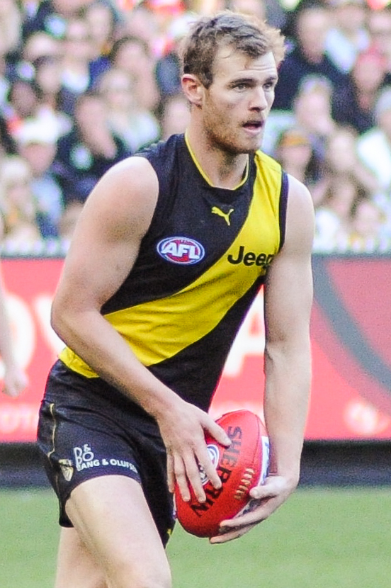 David Astbury during the AFL round thirteen match between Richmond and Sydney on 17 June 2017 at the Melbourne Cricket Ground in Melbourne, Victoria.